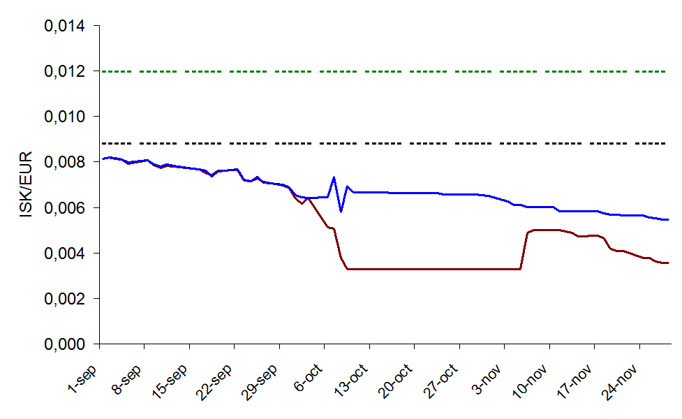 The blue solid line shows the official exchange rate (EUR per ISK) of the Central Bank of Iceland (2008-09-01 to 2008-11-28); the brown solid line shows the reference rate quoted by the European Central Bank during the same period. The lines diverge at the start of the 2008 Icelandic financial crisis. The black dashed line is the average exchange rate from January to August 2008 (EURISK = 113.31), while the green dashed line is the average exchange rate from 1999–2007 (EURISK = 83.423). Minor differences between the CBI rate and the ECB rate during September 2008 are due to the different times (during the day) that the rates are quoted.